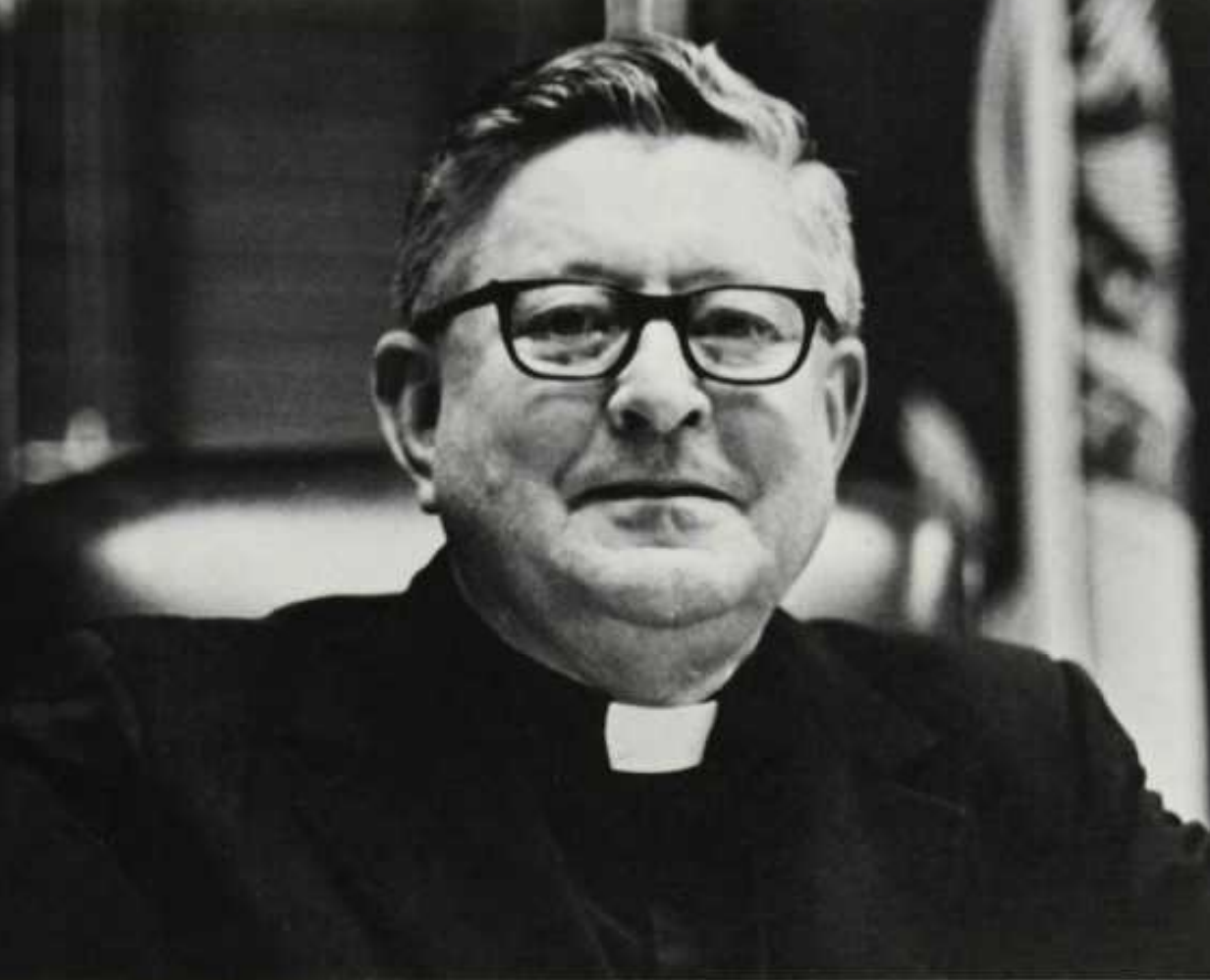 Photograph of Rev. Robert J. Henle, S.J., president of Georgetown University